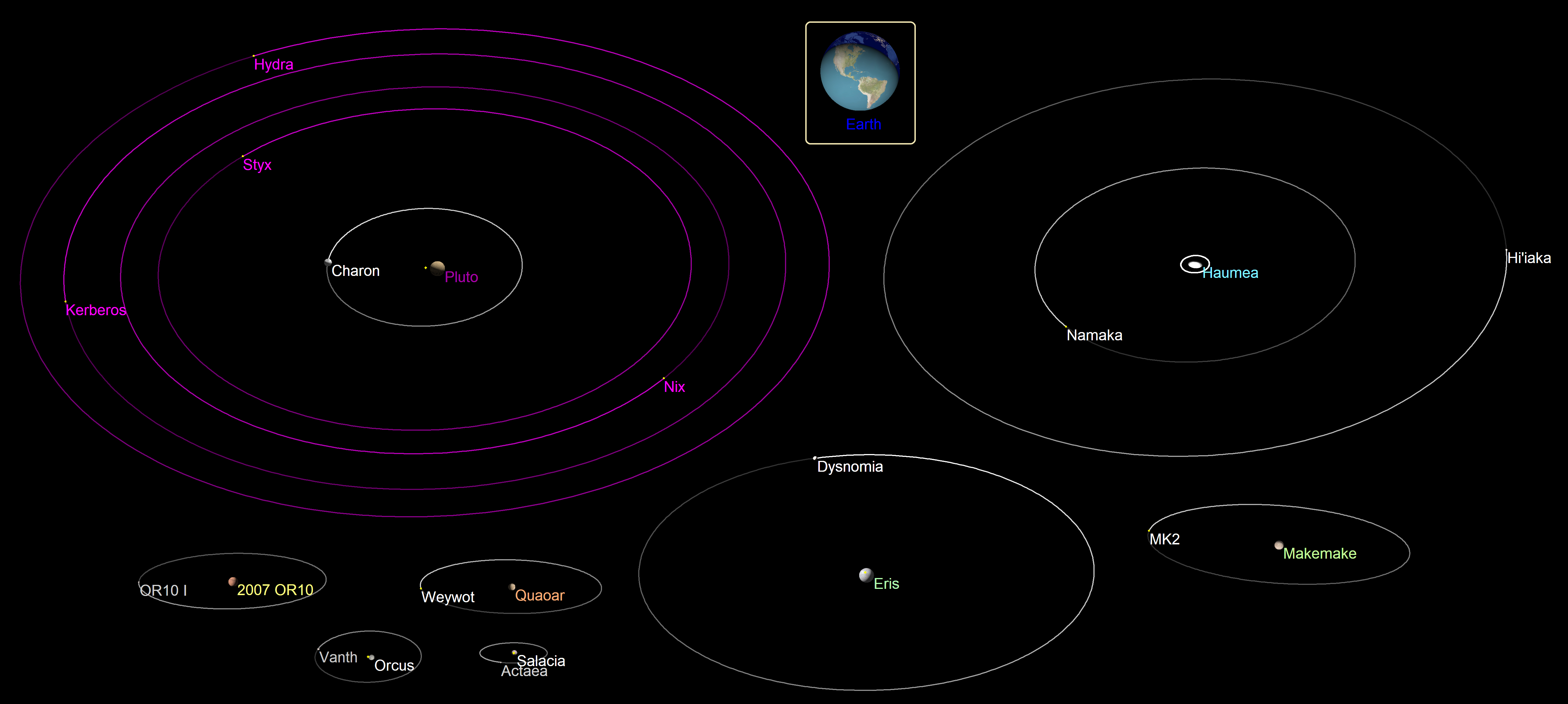 Eights with moon orbits, equally scaled, with earth as a comparison.